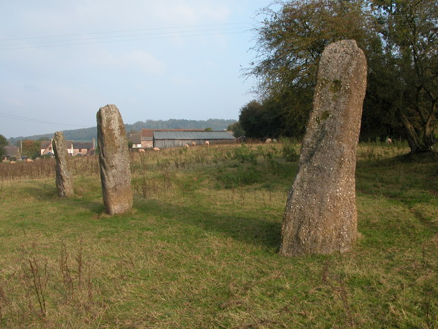 Harold's Stones, Trellech Harold's Stones date back about 3,500 years to the Bronze Age and are a conglomerate rock called puddingstone.